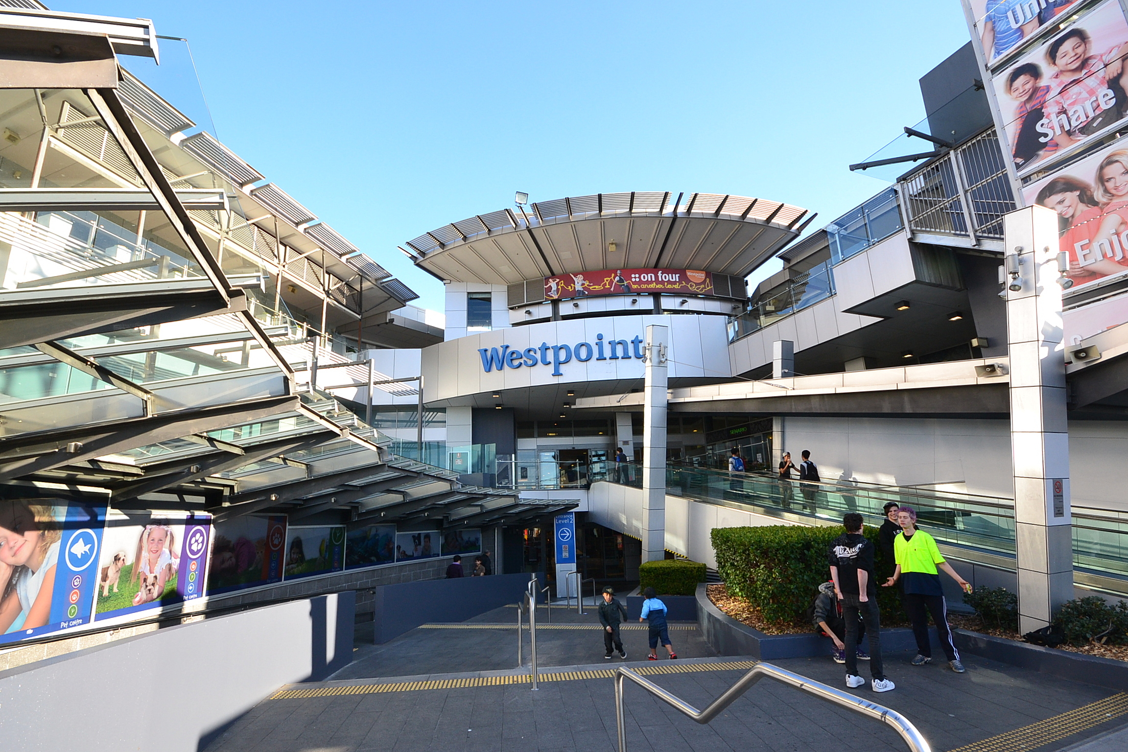 shops, Blacktown, Sydney